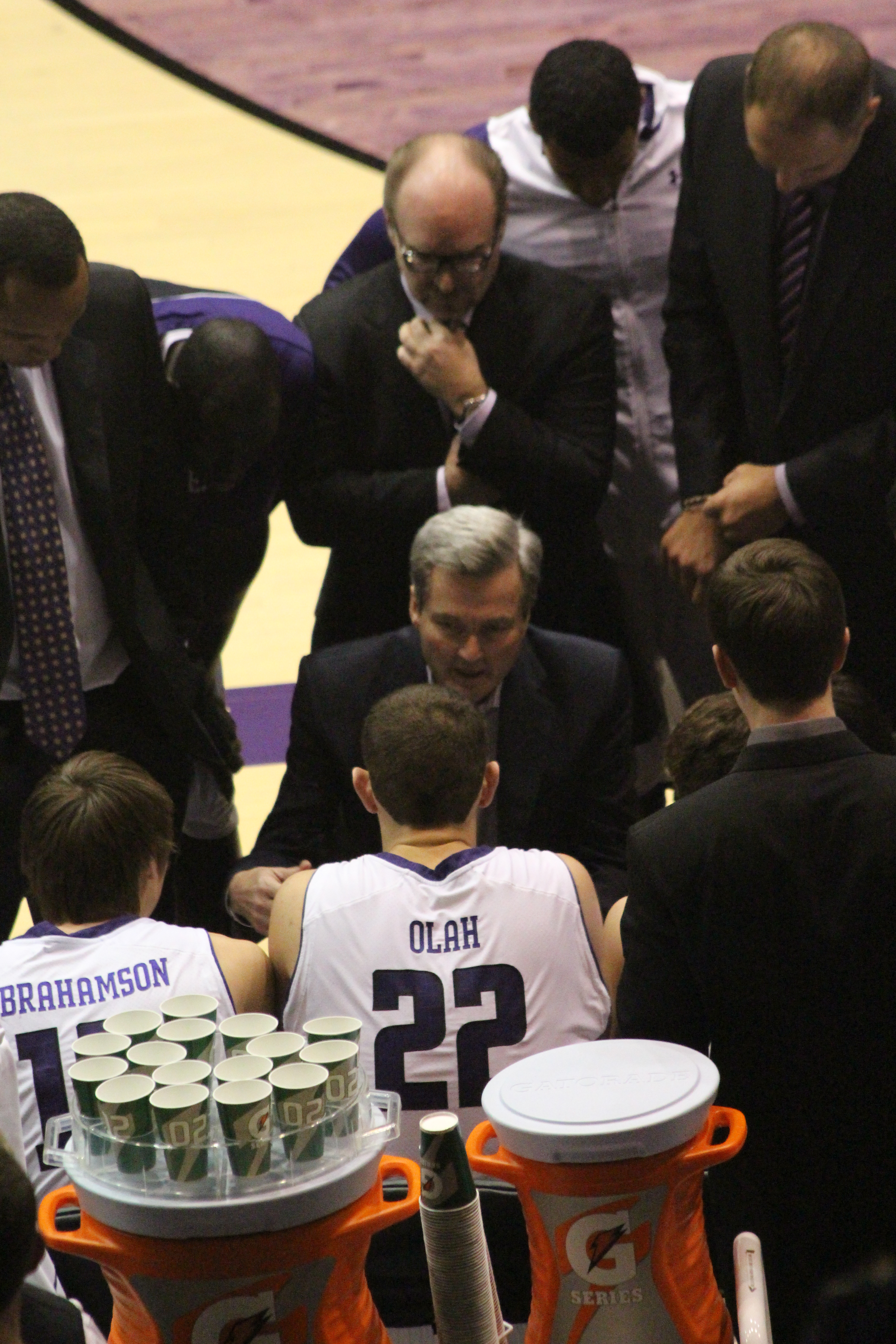 Bill Carmody coaching the 2012–13 Northwestern Wildcats men's basketball team